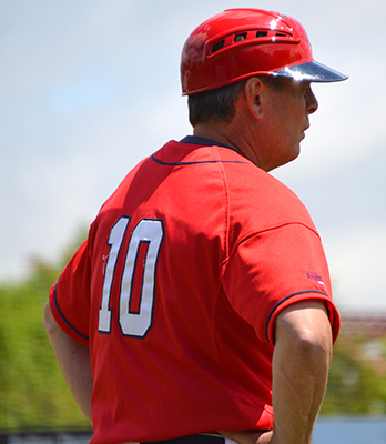 Matt Senk, head coach of Stony Brook, during the 2014 America East Baseball Tournament